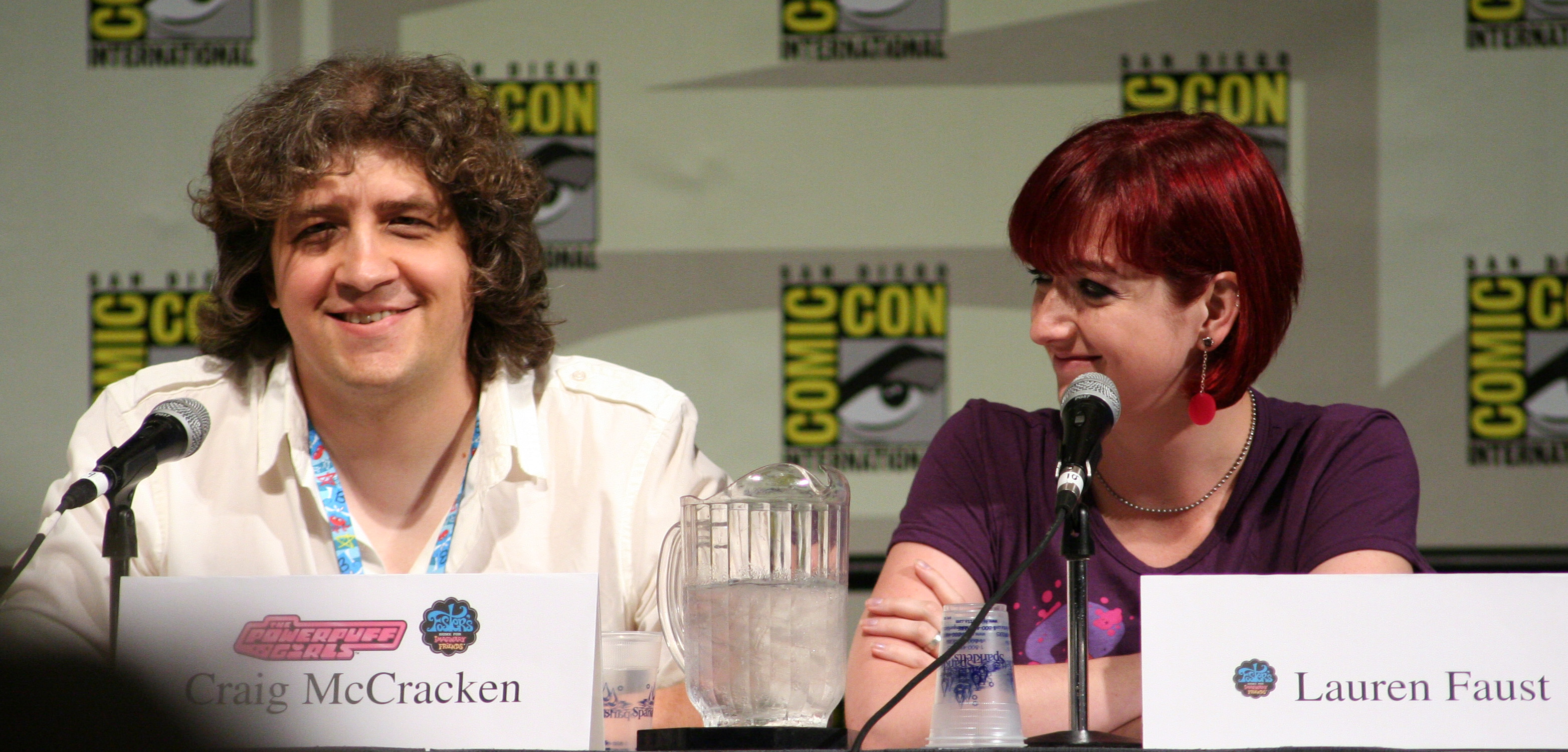 Cartoonists Craig McCracken and Lauren Faust at Comic Con 10.